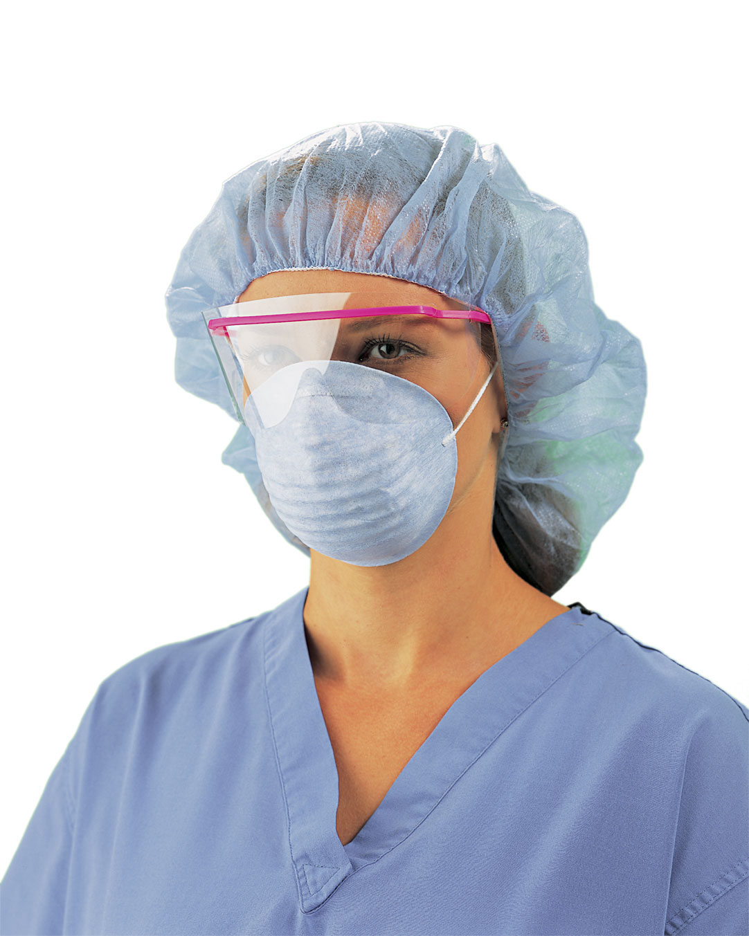 A model wearing disponsable medical PPE